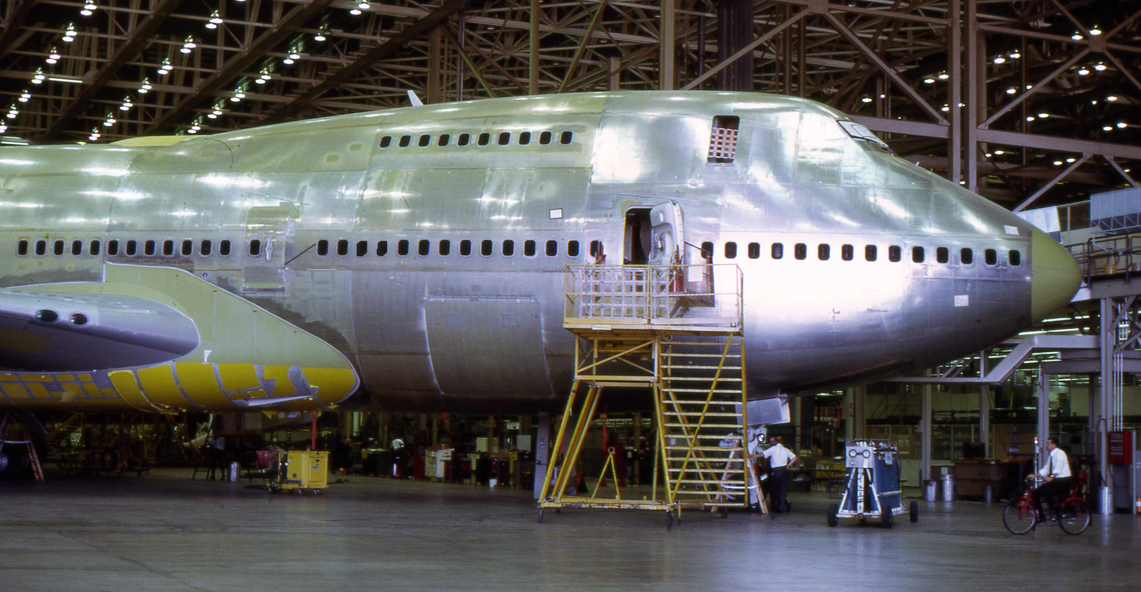 Boeing Everett Factory where all the Boeing wide-bodies has been assembled.